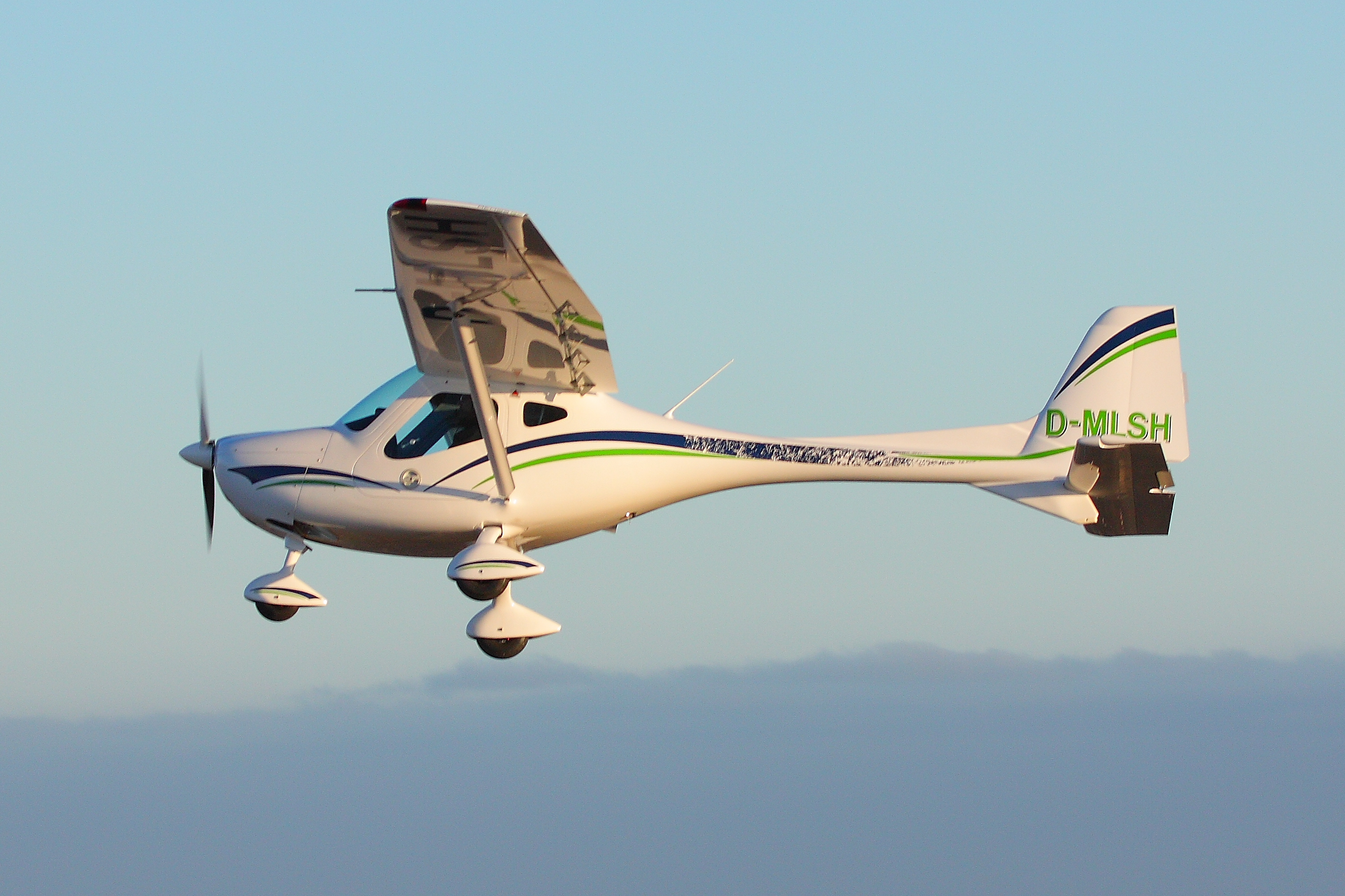 A REMOS GXeLITE in flight.